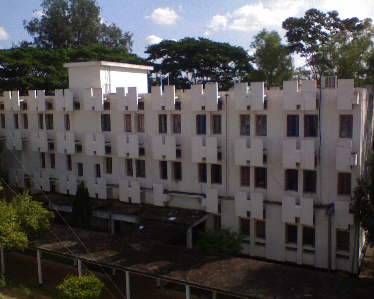 Academic building of Chittagong University of Engineering and Technology